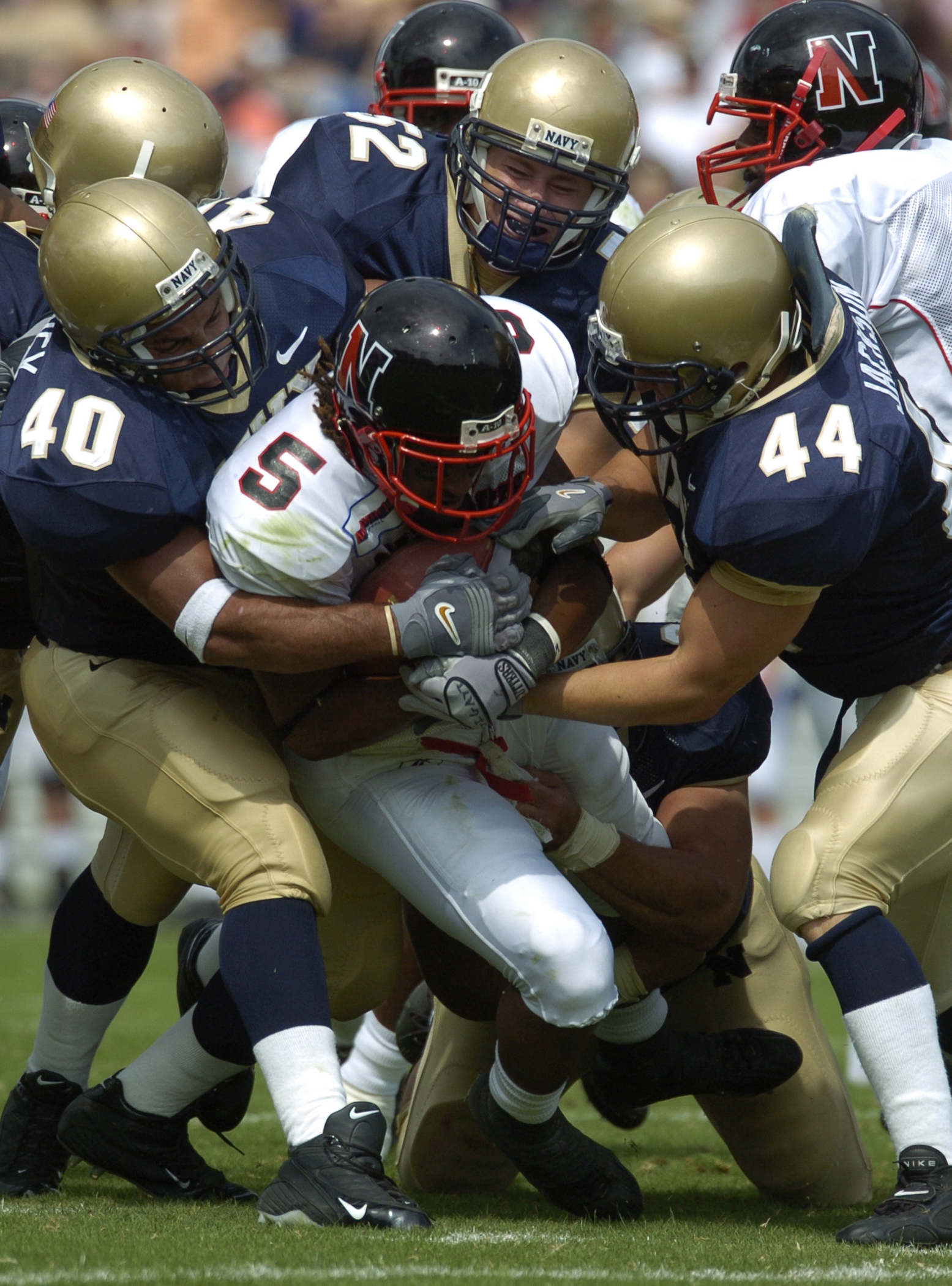 A trio of U.S. Naval Academy Midshipman defenders tackle Northeastern Huskies' Quintin Mitchell during the Navy win over Northeastern 28-24